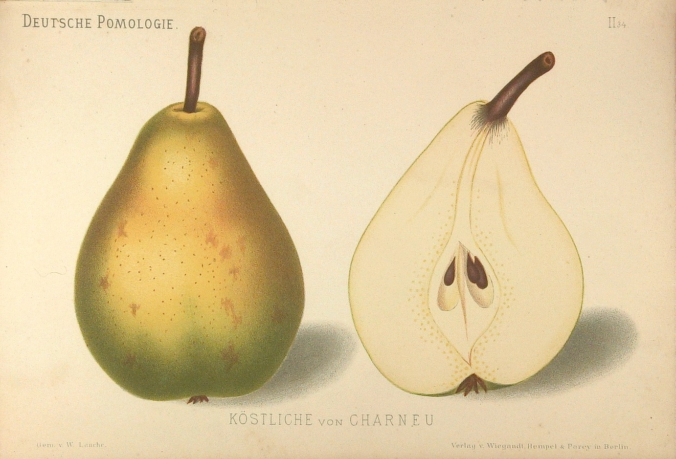 Page 34 from Deutsche Pomologie — Birnen, by Wilhelm Lauche, 1882. Published by Deutsche Pomologen-Vereins (German Pomological Society). Part of a series from the same book. The others can be found in Category:Deutsche Pomologie - Birnen Depicted pear cultivar: Köstliche von Charneu